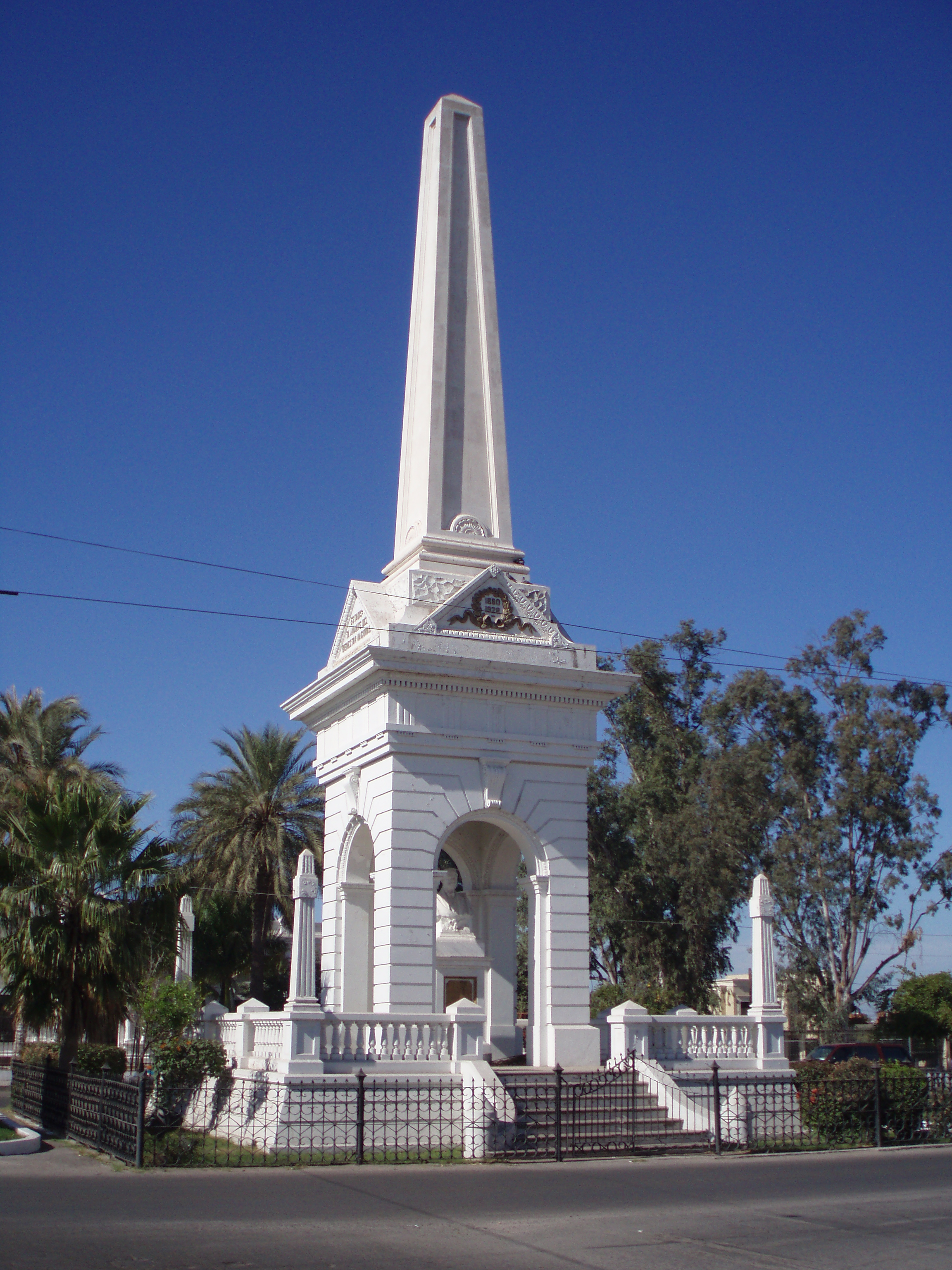 Álvaro Obregón obelisk monument in the city of Navojoa, Sonora state, Mexico.